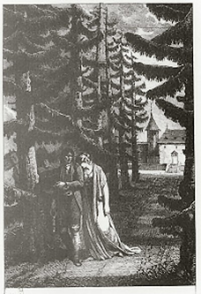 illustration from 1803 Génie du Christianisme by Chateaubriand, showing René and Amélie